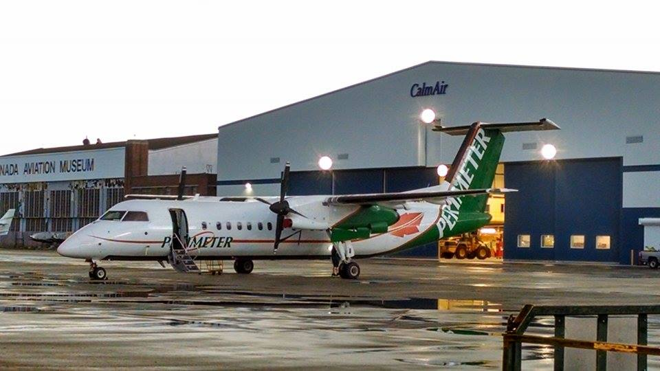 Perimeter Aviation, Winnipeg Manitoba Canada, 2014.